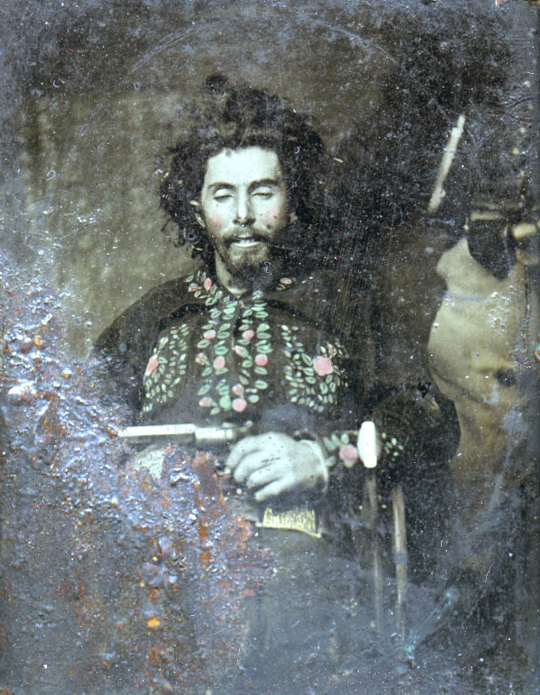 A picture of William T. Anderson taken shortly after his death on October 27, 1864 in Richmond, Missouri, by Robert B. Kice. Retrieved from [1], see Albert Castel & Tom Goodrich, Bloody Bill Anderson, pp. 127–29.